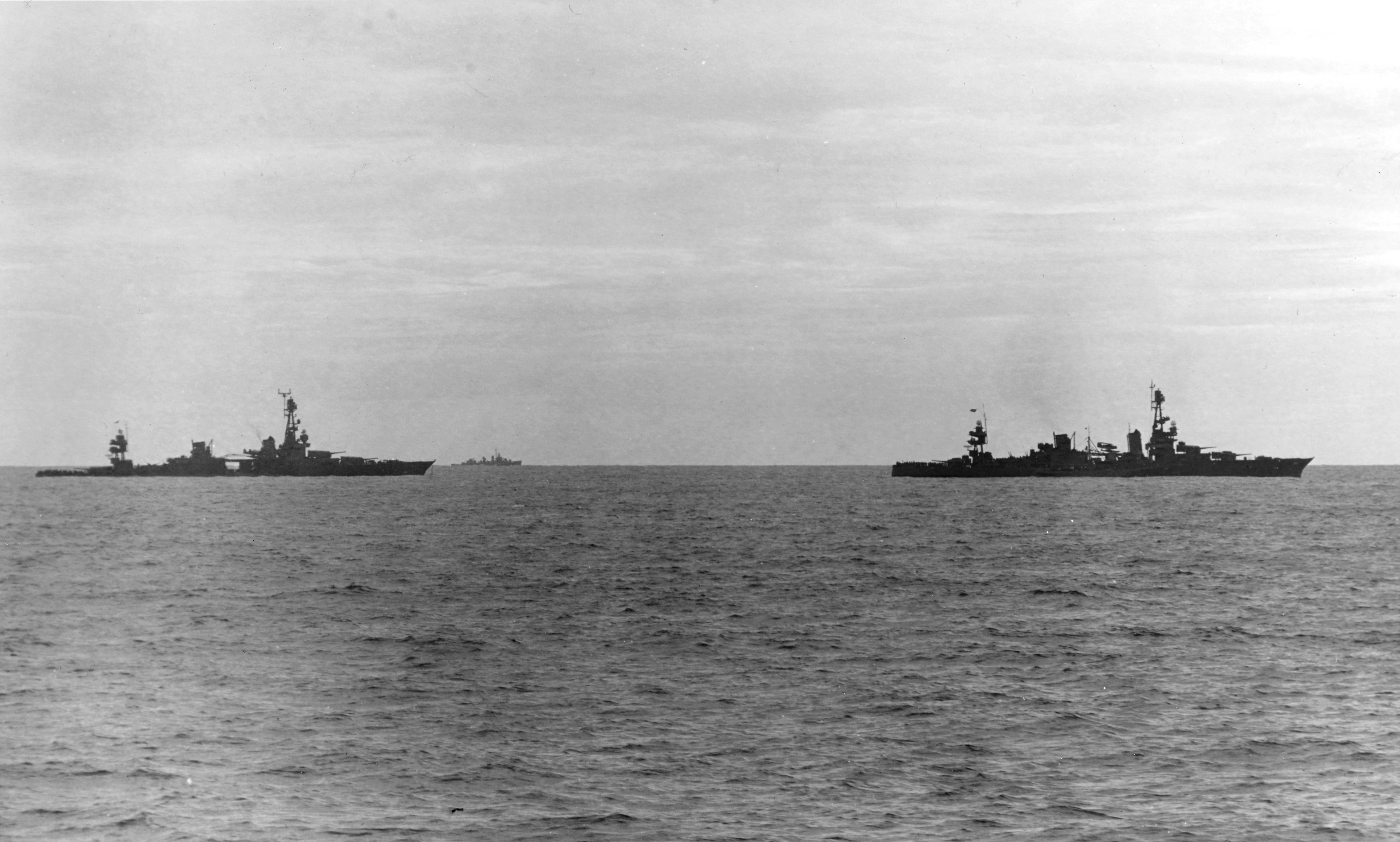 The U.S. Navy heavy cruiser USS Chicago (CA-29), at left, under tow at five knots by USS Louisville (CA-28) on the morning of 30 January 1943. The damaged cruiser had been torpedoed by Japanese aircraft on the previous night. A tug, probably USS Navajo (AT-64), is alongside Louisville.